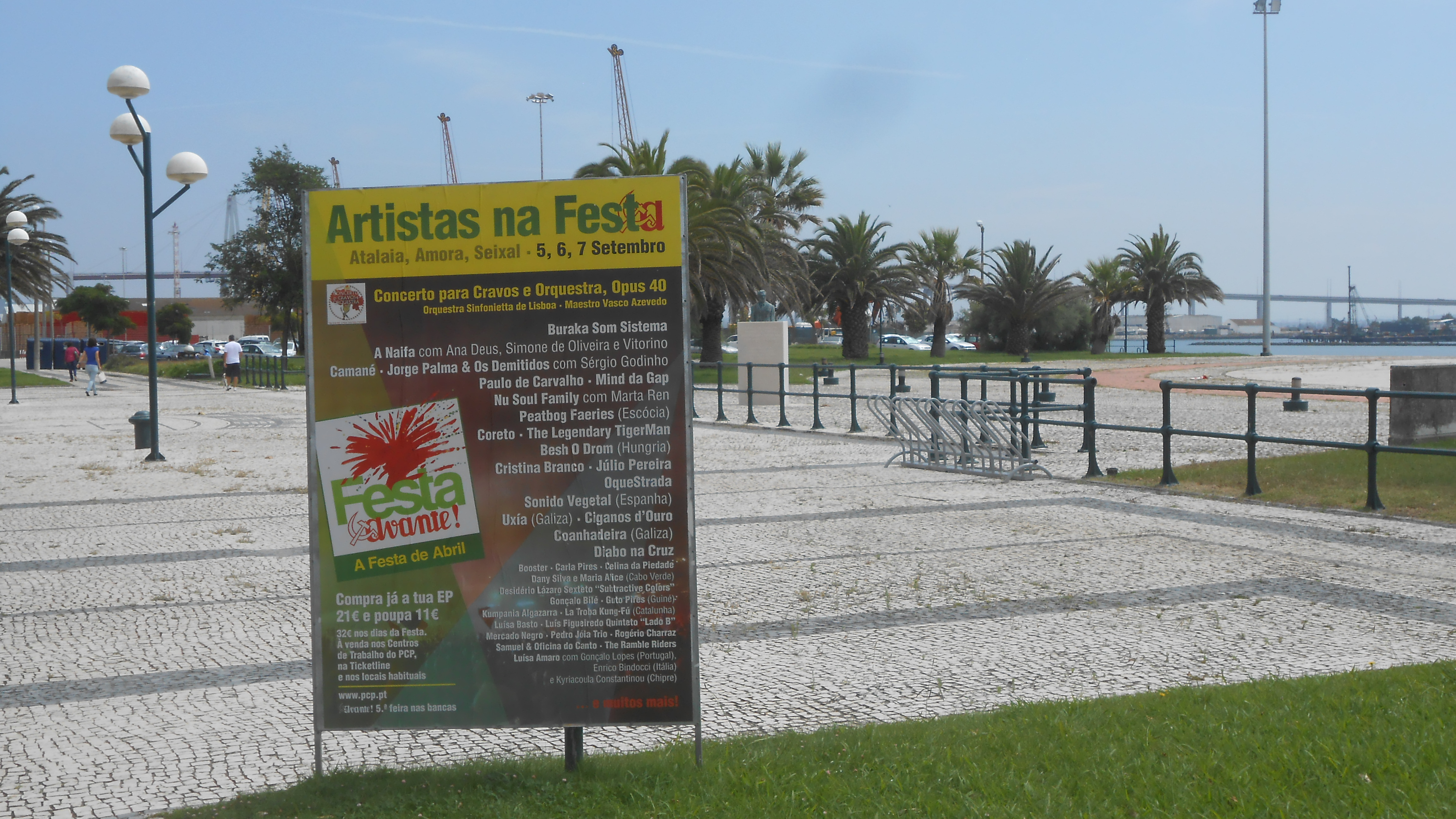 Advertising poster to the Festa do Avante 2014 in portuguese port city Figueira da Foz, in the back the Edgar Cardoso bridge and the Mondego river.